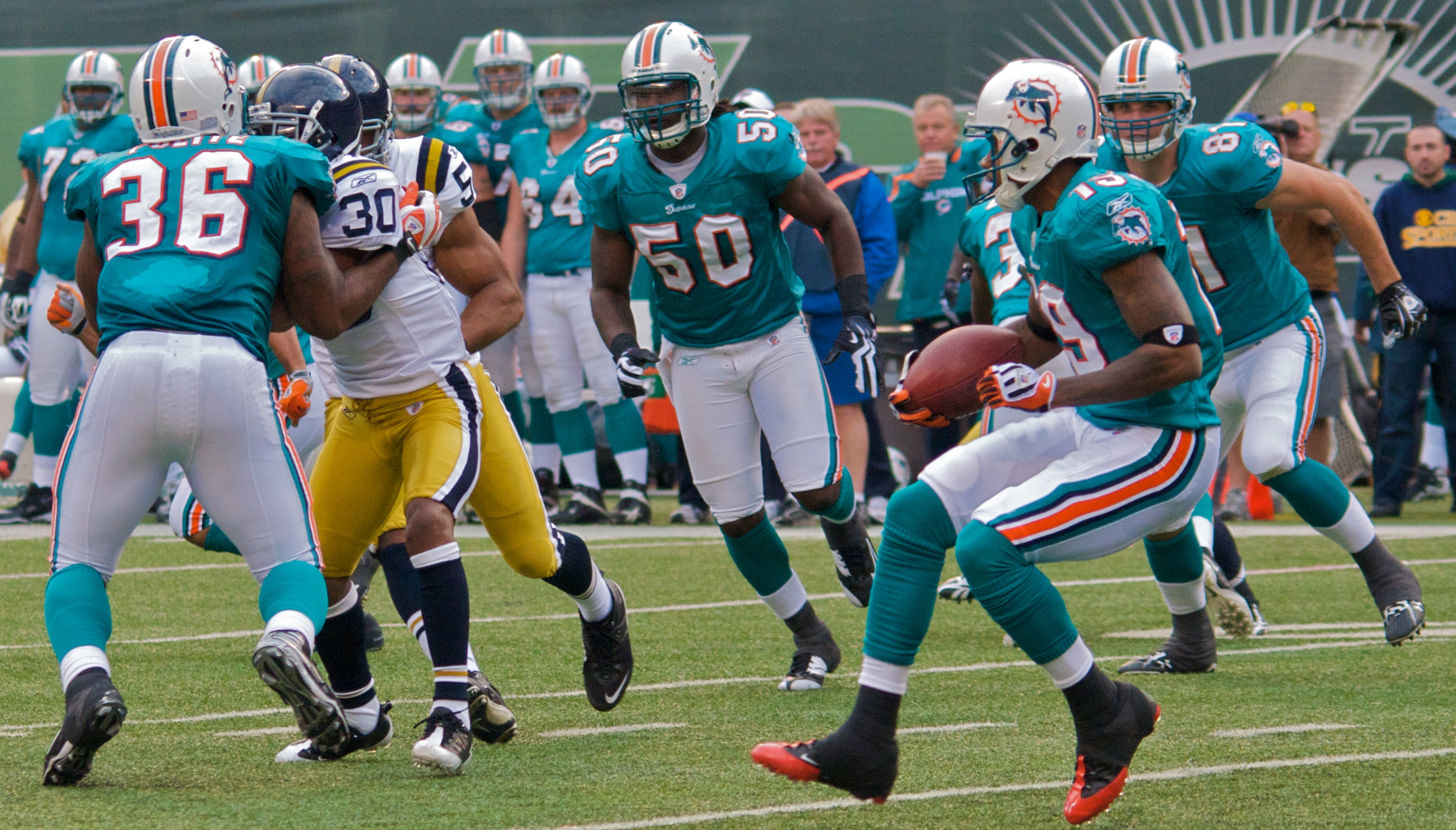 Ted Ginn of the Miami Dolphins returning a kick against the New York Jets.